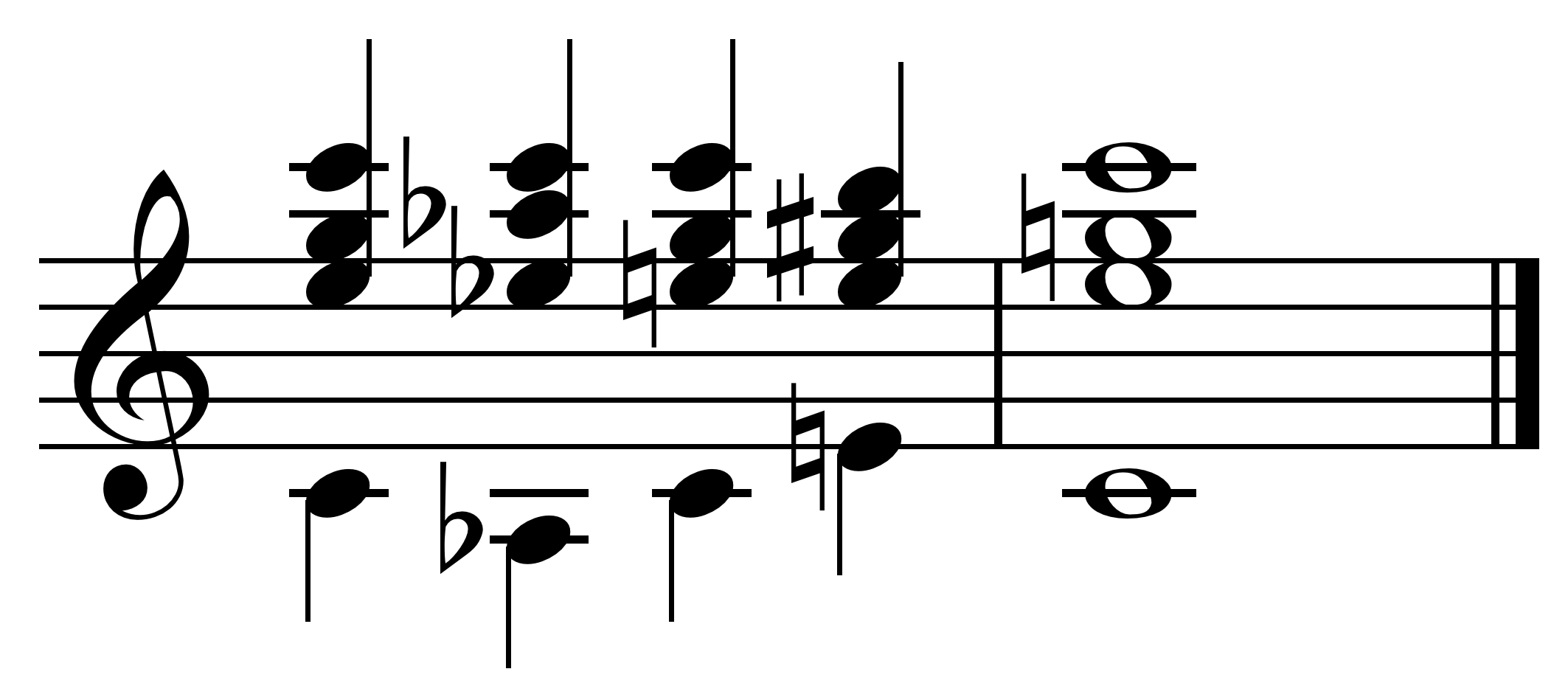 A chord progression illustrating "Tonalität", rather than the strictly diatonic "Tonart".